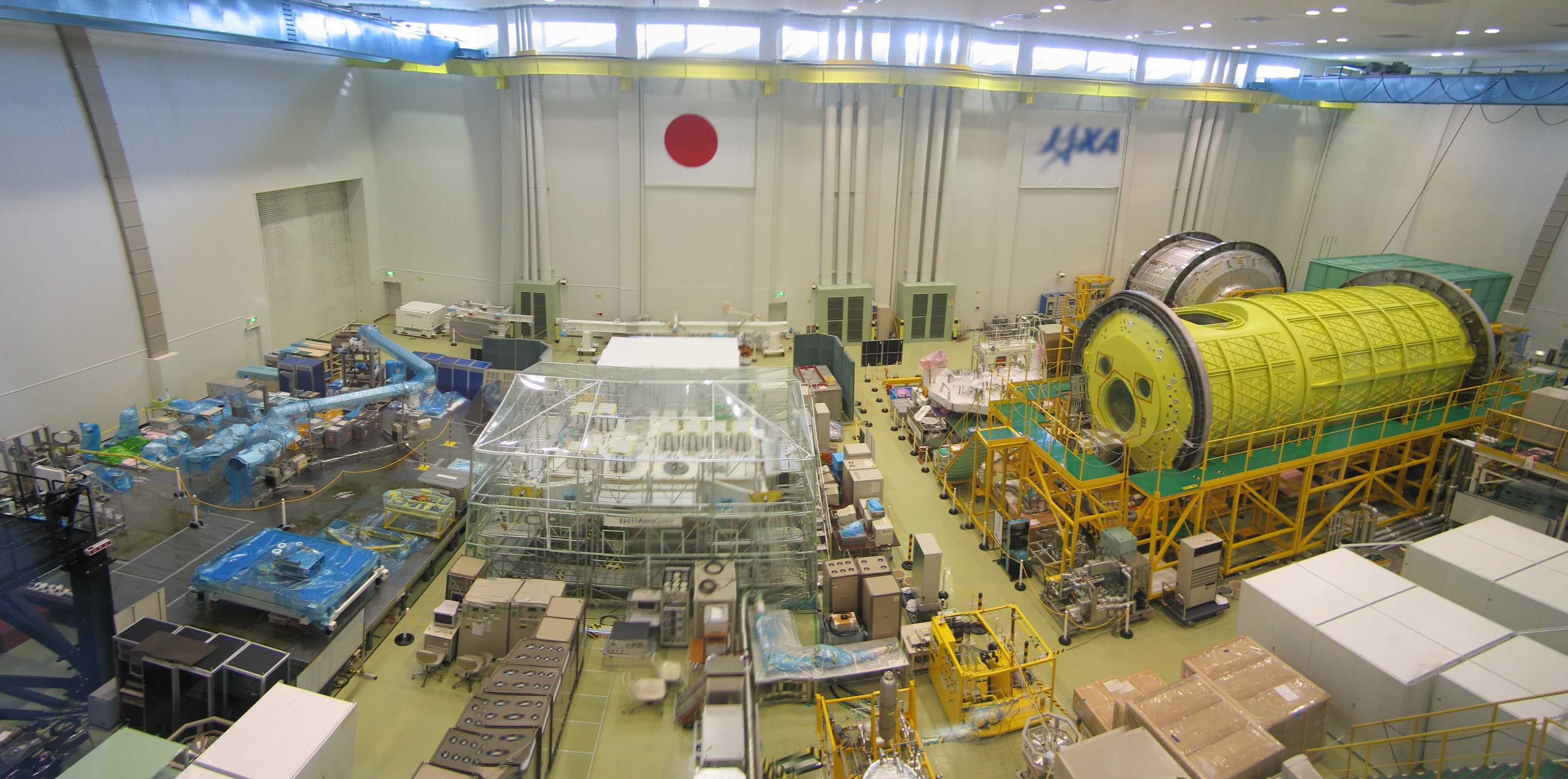 Photo by Yosemite. Japanese Experiment Module of International Space Station.